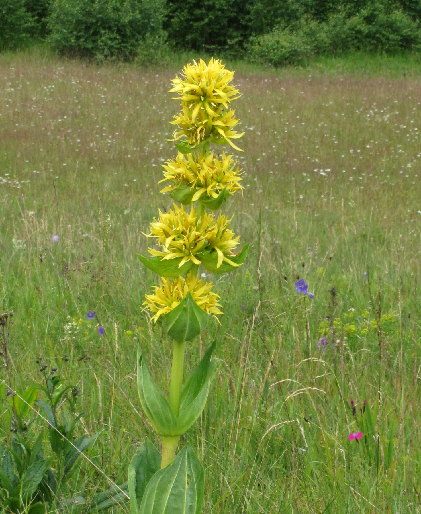 Great yellow gentian (Gentiana lutea), southern Swabian Jura (Tuttlingen district), Germany